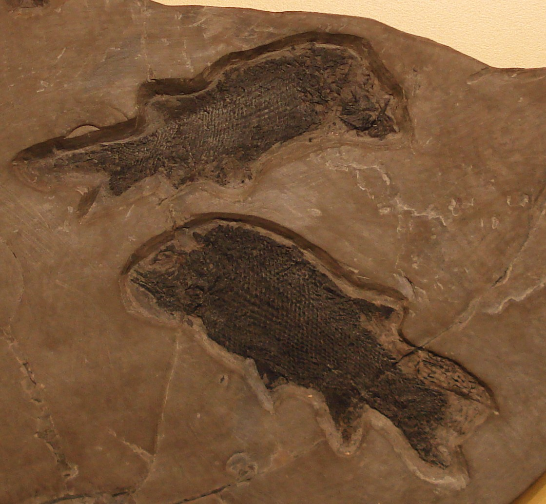 Fossil of Paramblypterus an extinct fish